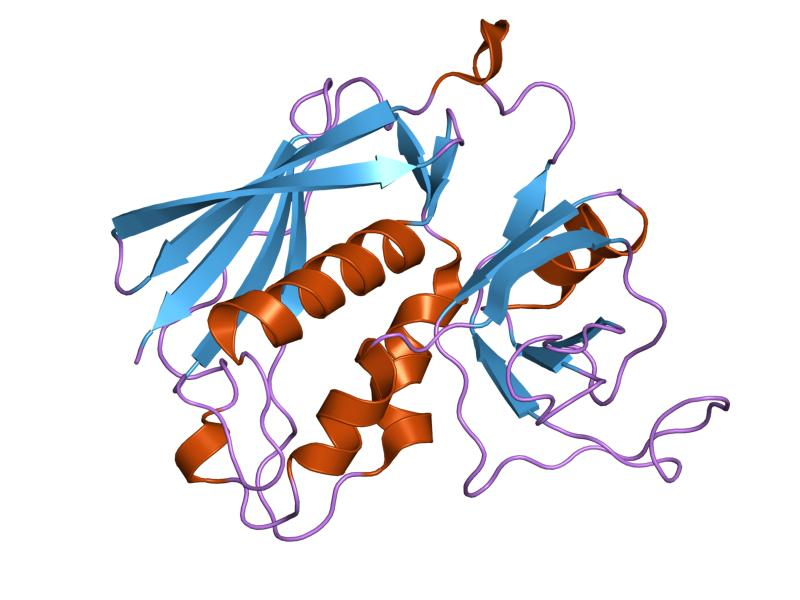 Cartoon representation of the molecular structure of protein registered with 1uns code.